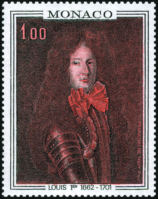 Stamp of Louis I of Monaco